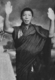 Chögyam Trungpa, imbibing the crazy wisdom. Surmang This file has an extracted image: File:Khenpo gangshar2.jpg..